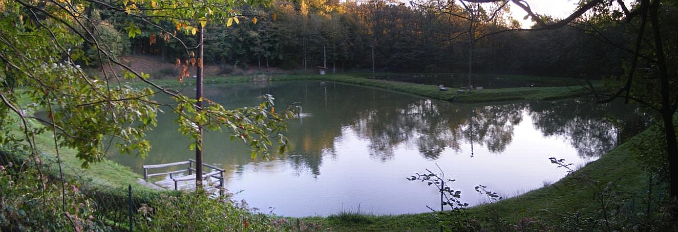 Selve Marcone: lake Le Ginestre (BI, Italy)